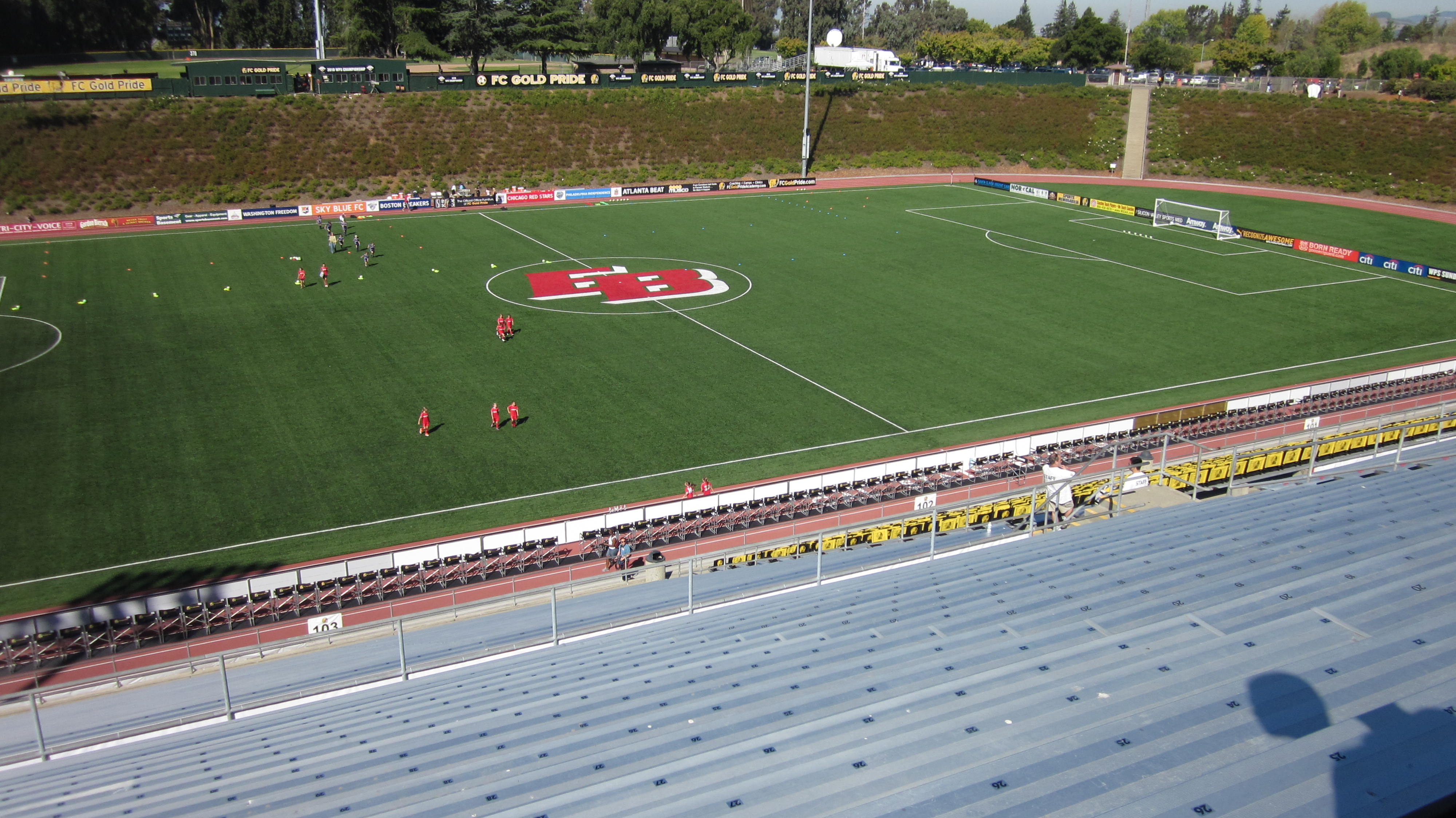 Pioneer Stadium on the CSU East Bay campus before the start of the 2010 WPS Championship between the FC Gold Pride and Philadelphia Independence.